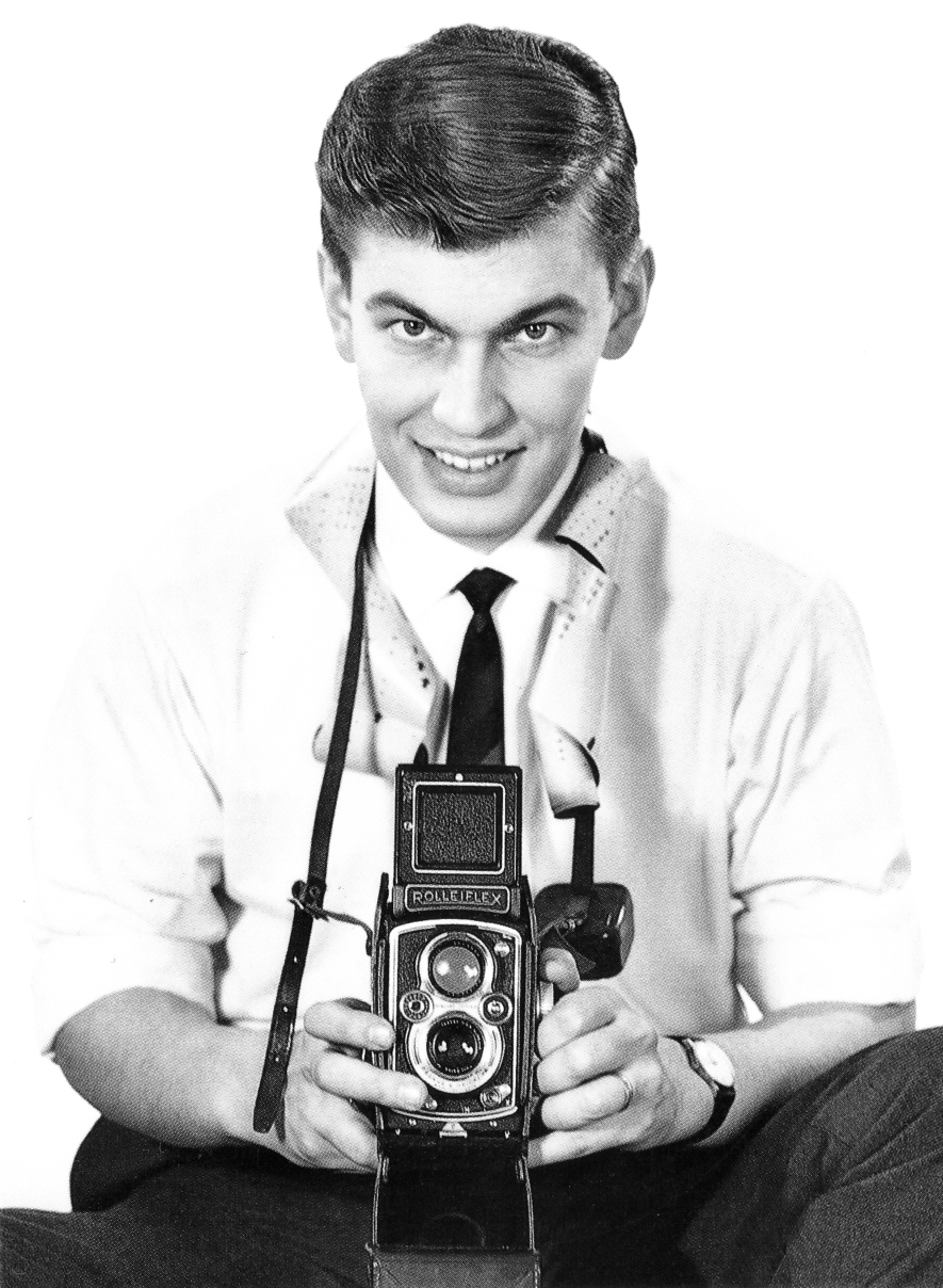 Photograph of the Finnish musician Seppo Hanski (1942–1995).